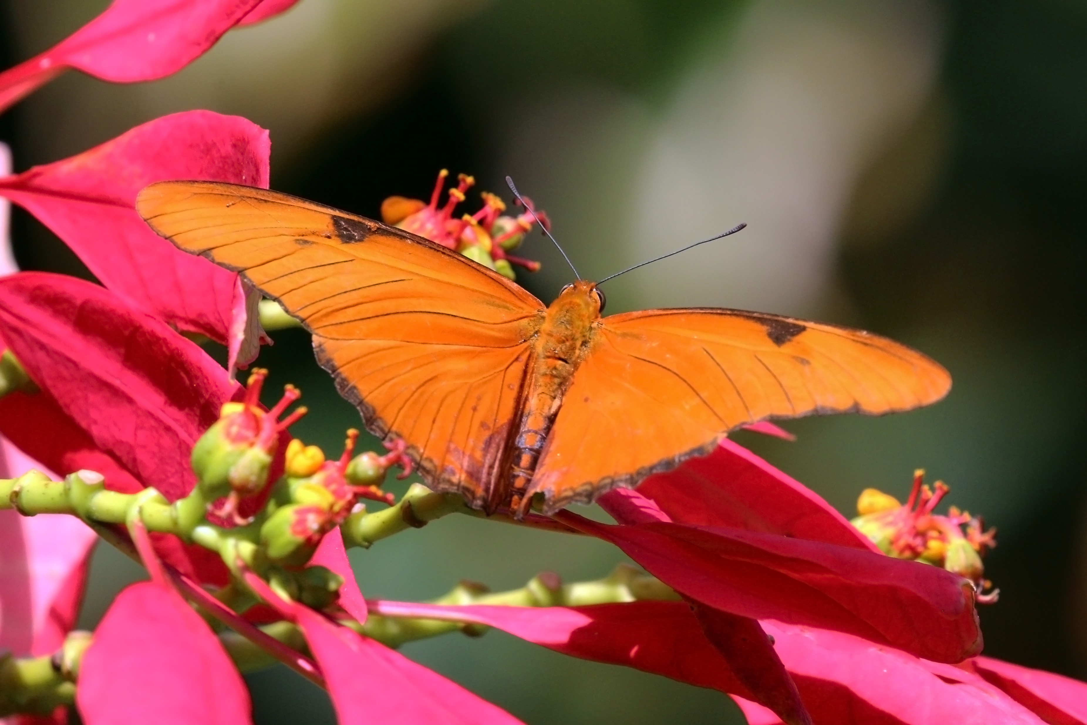 Julia (Dryas iulia zoe) male, Grand Cayman